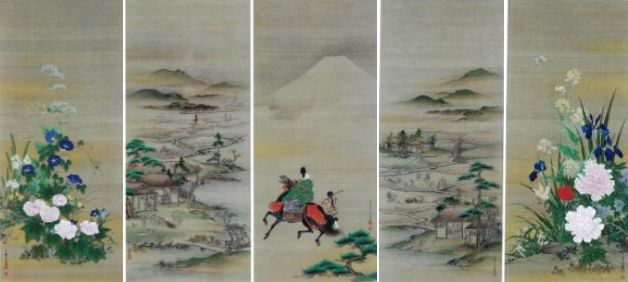 Journey to the East, Scenes of Cultivation, and Flowers, by Oki Ichiga